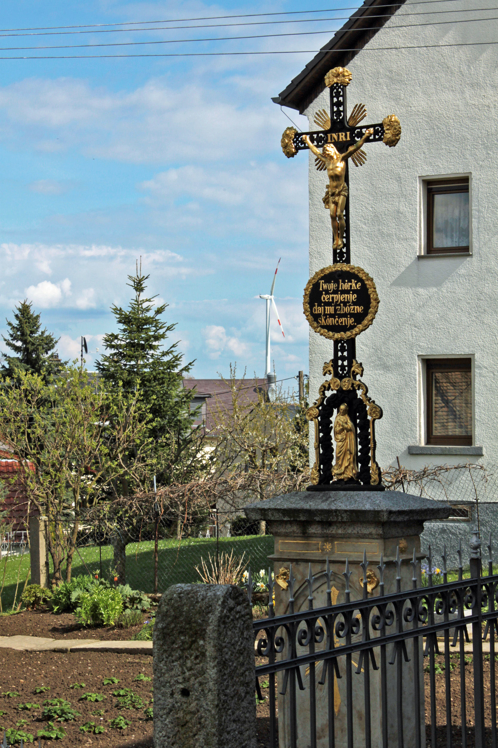 Wayside cross in Ostro/Wotrow, municipality of Panschwitz-Kuckau, Bautzen district, Saxony. Inscription: „Twoje hórke ćerpjenje daj mi zbóžne skónčenje“